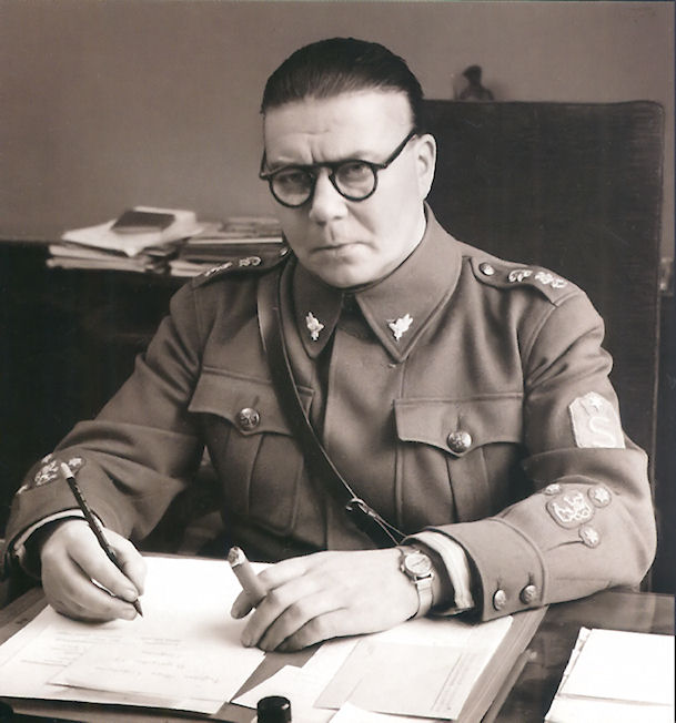 Colonel Lauri Malmberg